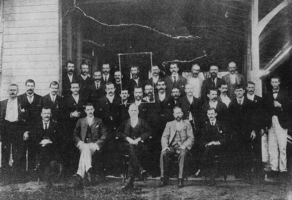 Staff of the Cairns-Mulgrave Tramway, ca. 1905. The tram was built and operated by the Cairns Shire Council in 1896. Later after it had been purchased by the Queensland government in 1911, it became part of the Brisbane-Cairns railway. Back row: P. King; M. Gilshennan; B. Connors; W. Mills; J. Davies; M. Carey; E. Mawby; J. McCool; J. Anderson; W. Catling; A. Hill. Middle row: D. Dean; J. Cleary; E. Cummings; JK. Simpson; H. R. Smith; T. P. Smith; H. Coombes; A. Wyer;W. France; E. Strutter; C. P. Richardson; C. E. Wood; Laycock; A. F. Carpenter; H. Fenwick. Front Row, left to right, G. Sparks (Loco Foreman); H. Manners (Accountant); J. J. O'Leary (Superintendent) A. Orchard (Maintenance Inspector) J. C. ? (Cairns Station Master).